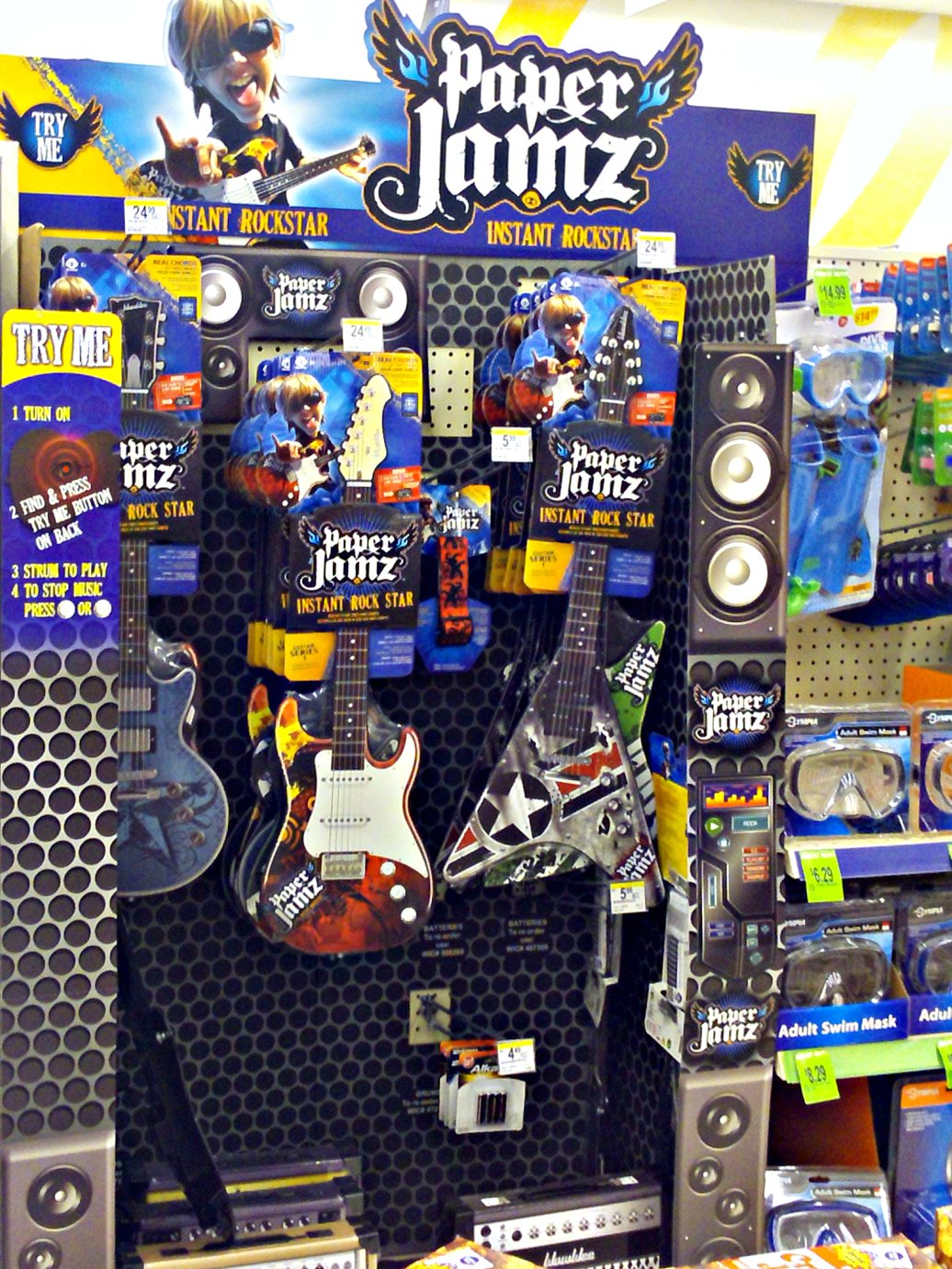 Paper Jamz Instant Rockstar This series of Musical Instruments that includes Guitars, Amps and Drums -all made from Paper and battery-operated are the latest musical game/toy sensation at Walmart, Macy's, Walgreens and other retail stores worldwide. Definitely a cheap alternative to the Guitar Hero craze. I haven't really tried any of them yet beyond testing the built-in Demo tunes but it promises to be a lot of fun.